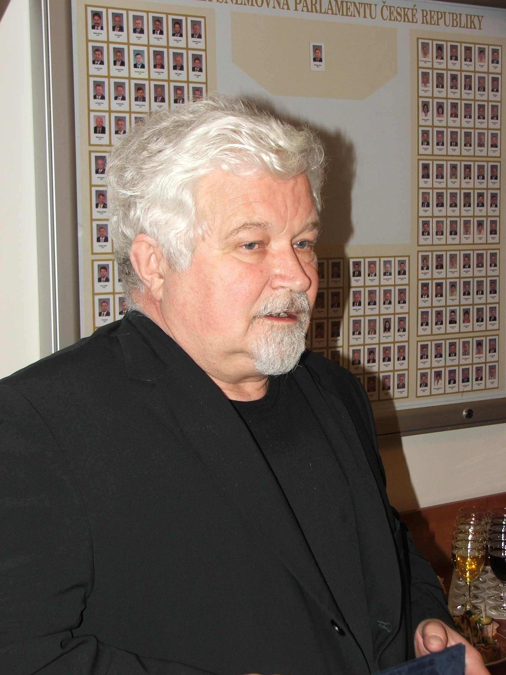 Czech politician Petr Pithart.